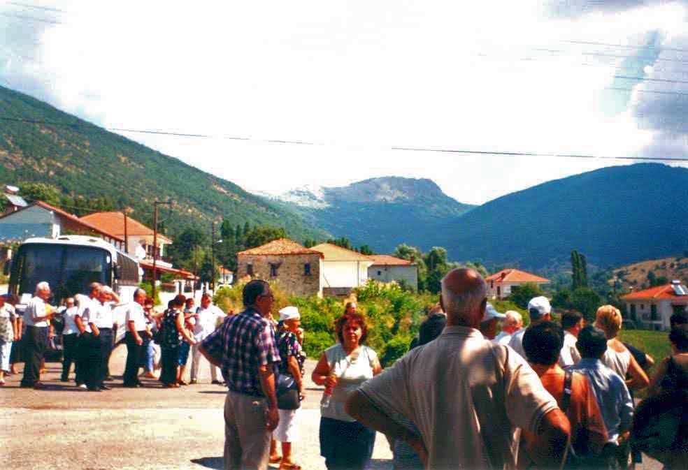 Meeting of refugees from Greek civil war and local people of Visheni, Visinia, Aegean Macedonia, Greece